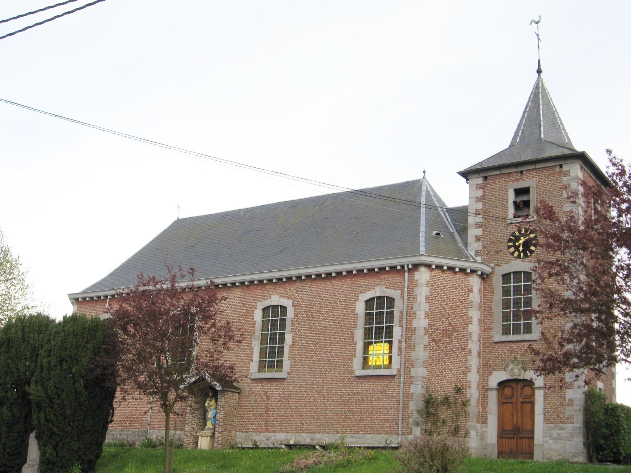 Church of Saint-Lambert in Omal, Geer, Liège, Belgium